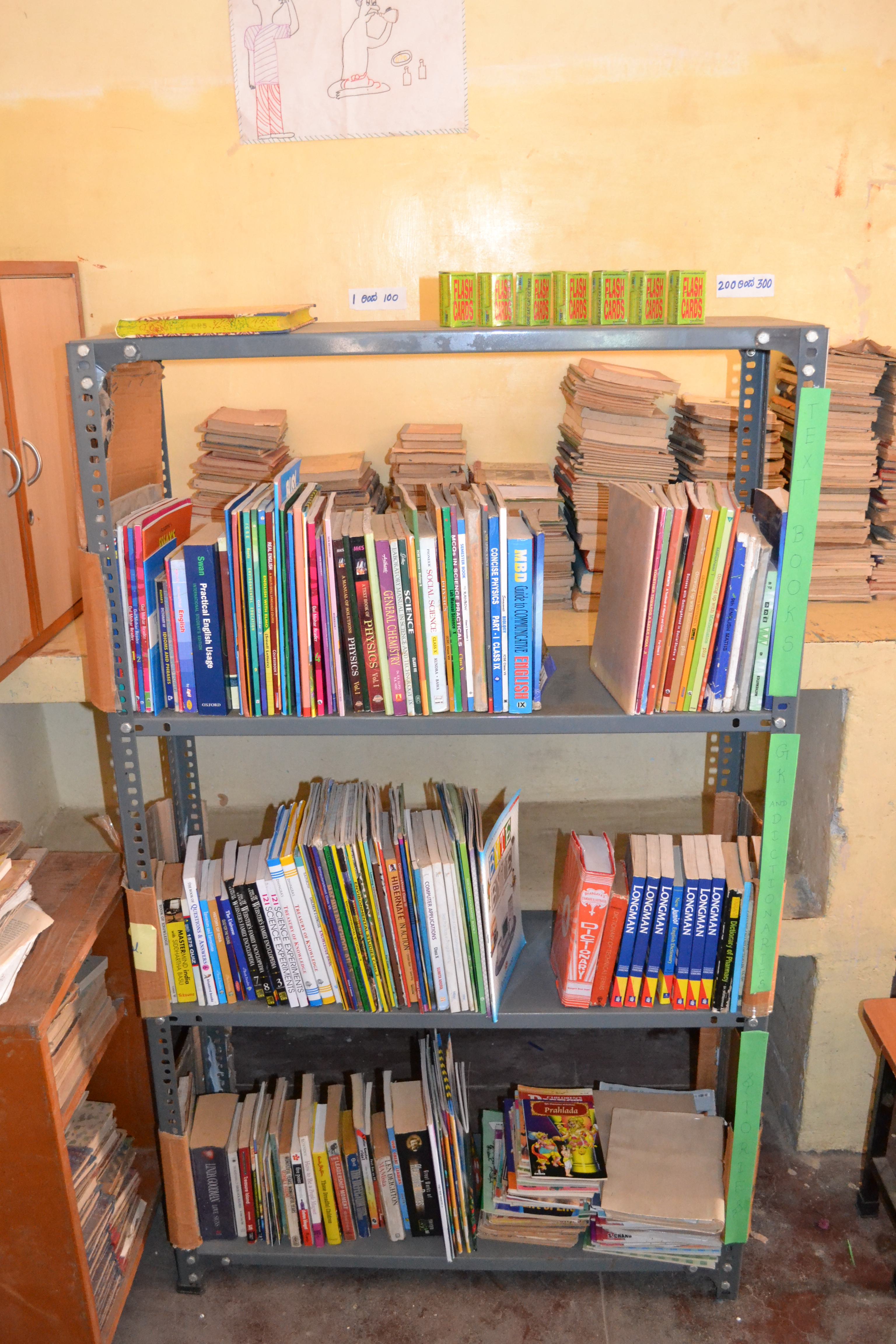 Mobile Library 2012 program by Singing Skylarks